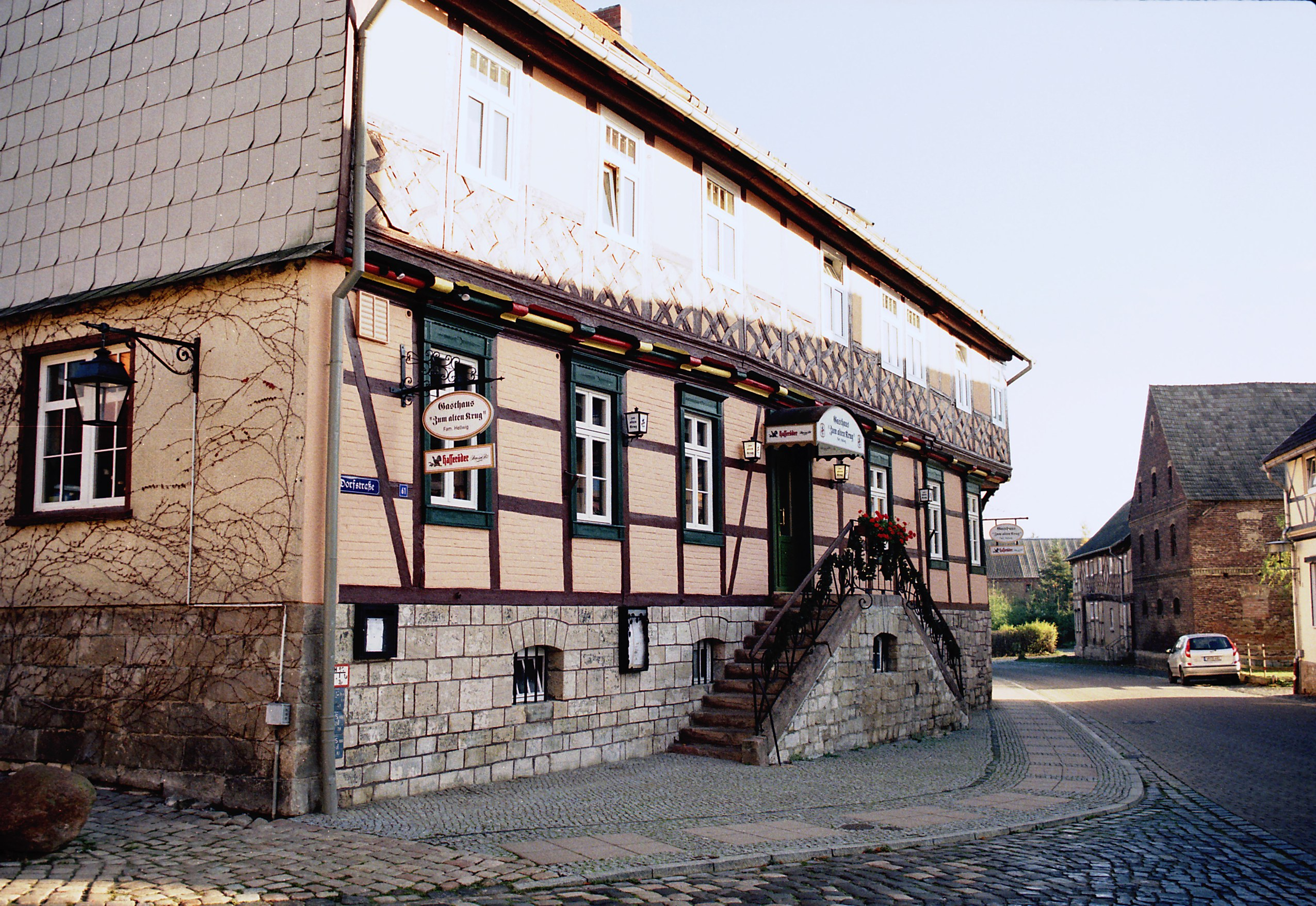 Zilly, the inn "Zum alten Krug"